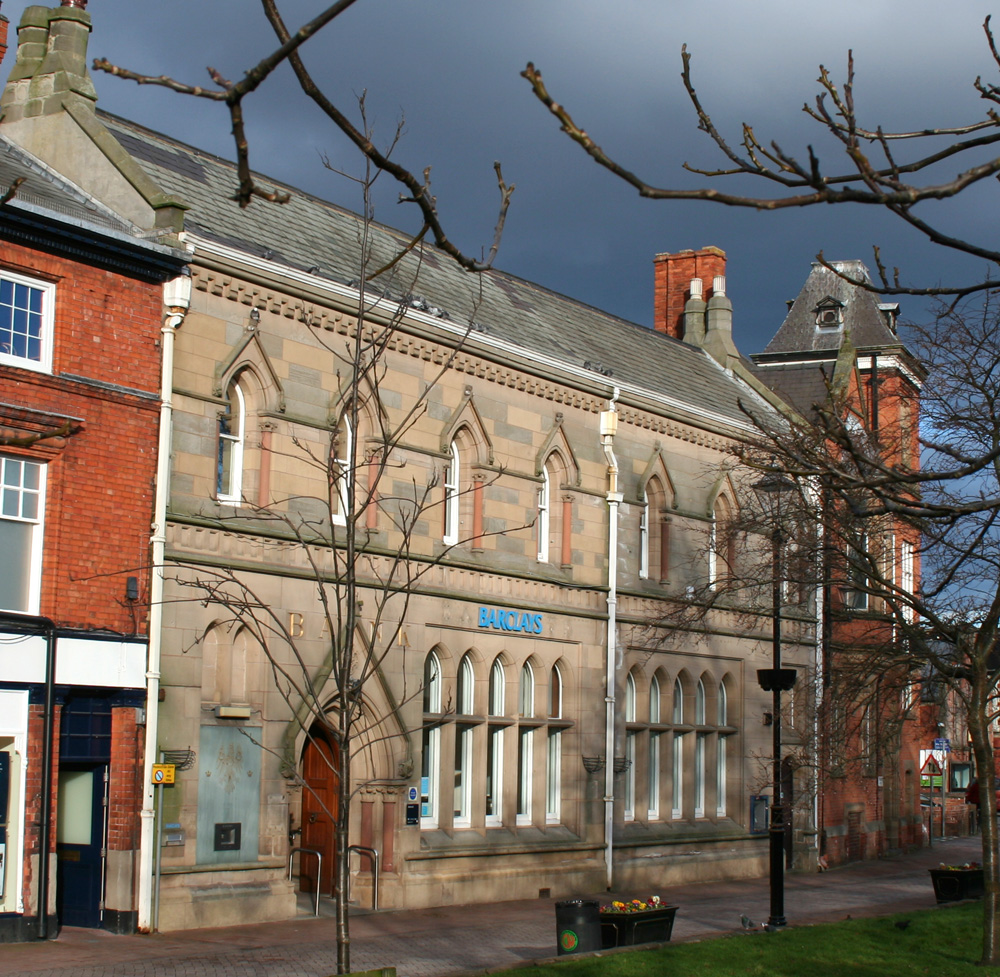 11 Churchyardside, Nantwich, Cheshire